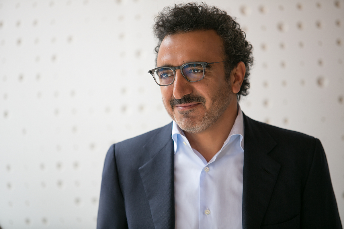 This is a portrait of Hamdi Ulukaya